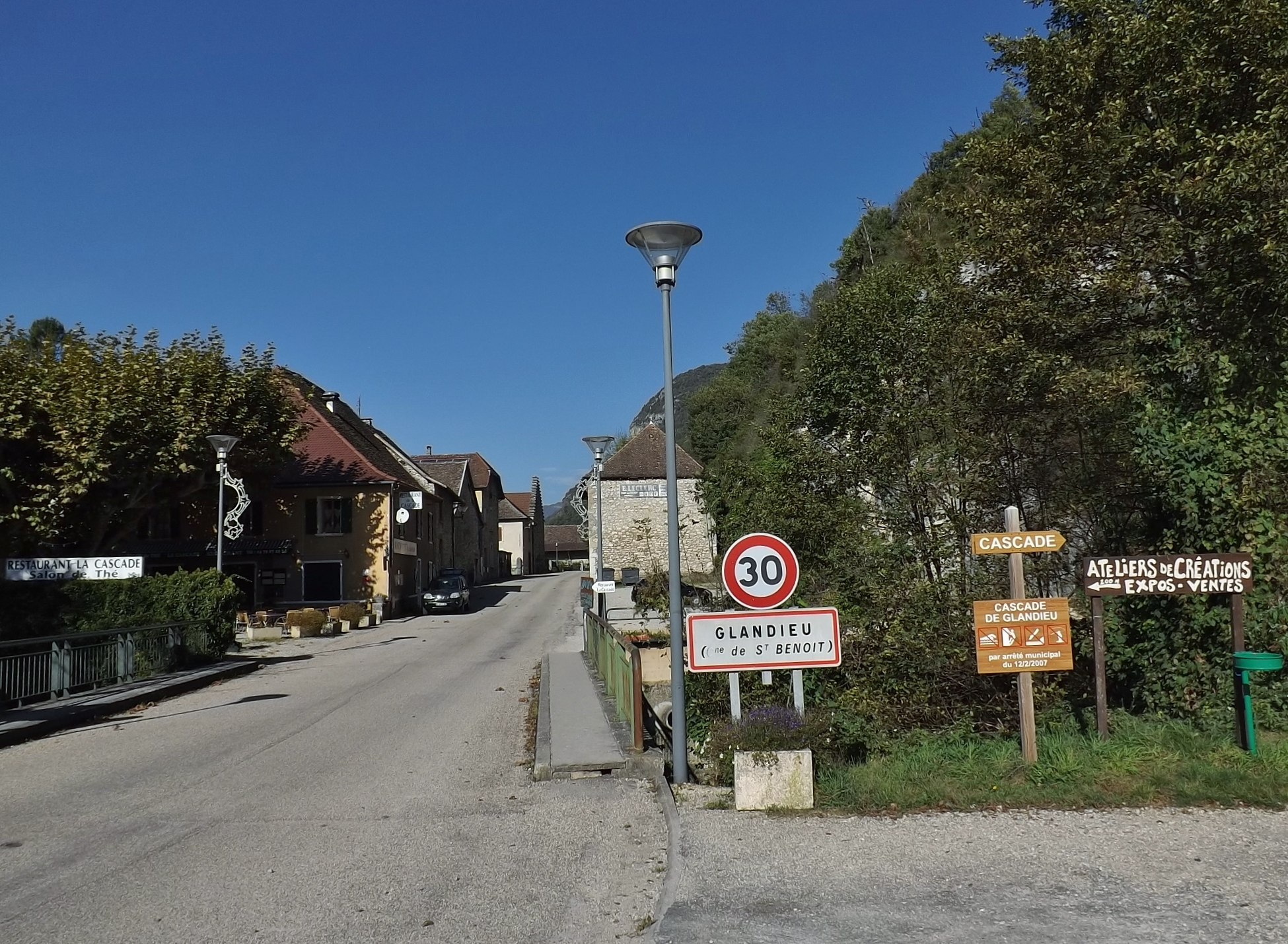 Passing from the French hamlet of Glandieu in Brégnier-Cordon, to Glandieu in Saint-Benoît, separated by the Gland river, in Ain.